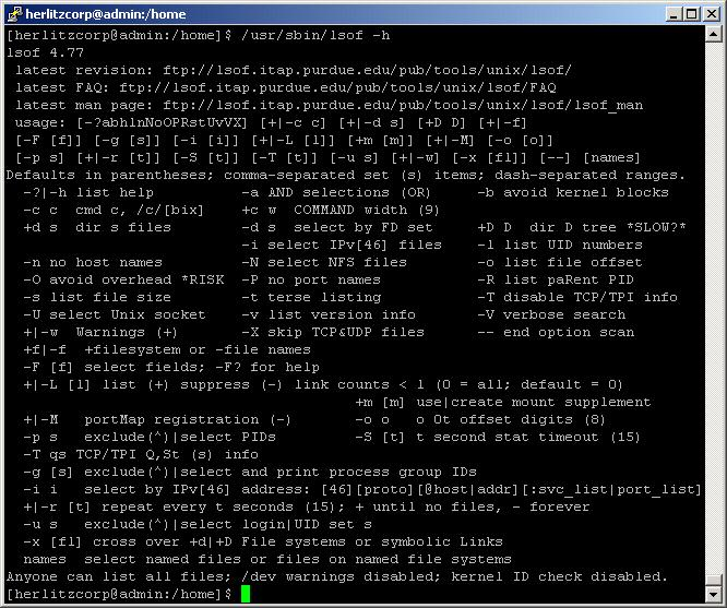 lsof help output